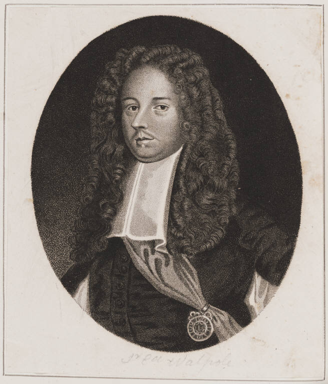 Sir Edward Walpole (1706-1784)